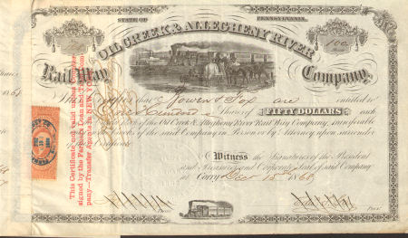 Scan of an original Oil Creek and Allegheny River Railway stock share, from the 1860s